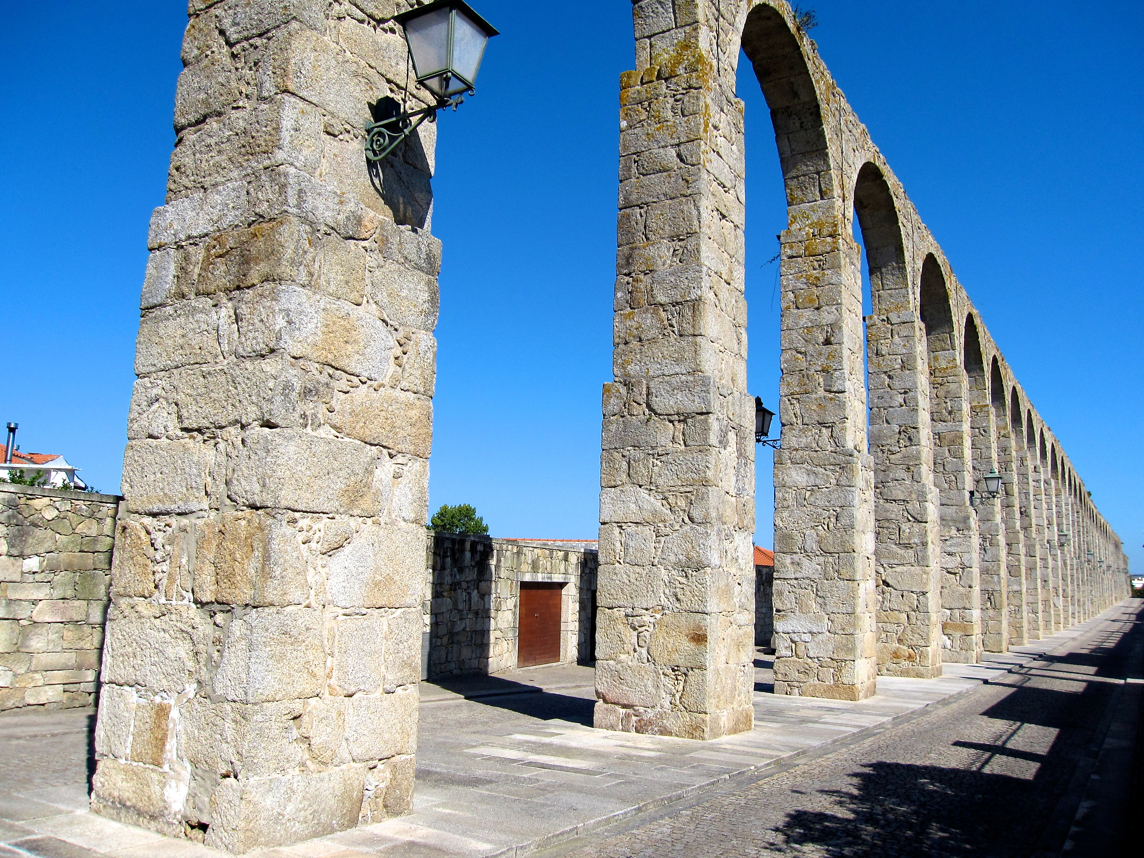 This file was uploaded for Wiki Loves Monuments in Portugal with the unique identifier 71209.